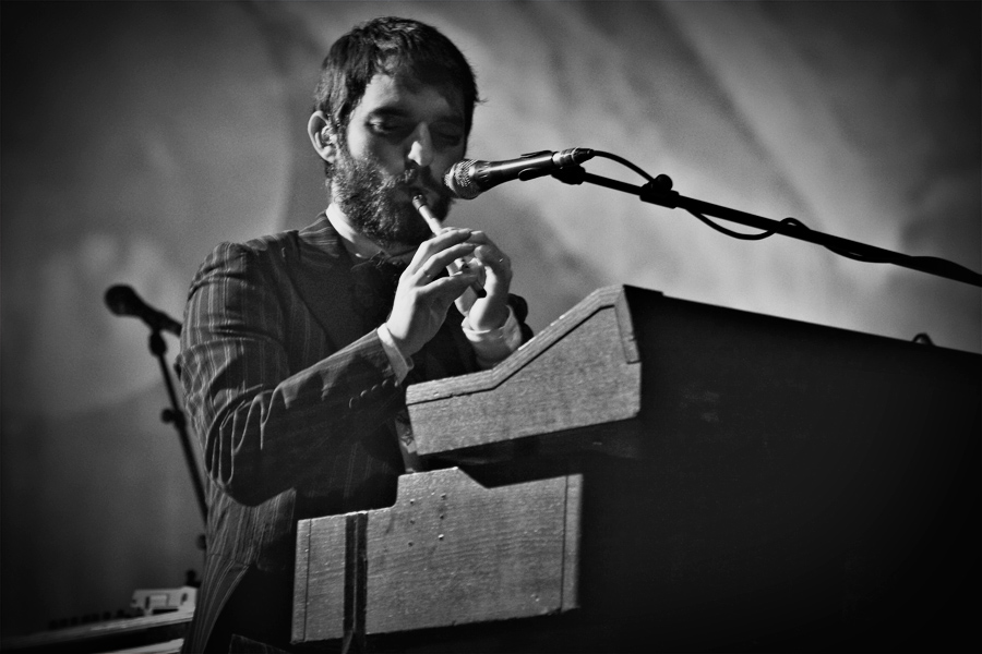 Kjartan Sveinsson at Alexandra Palace, 21th November 2008